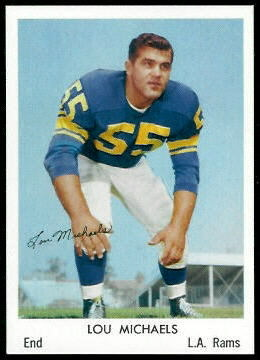 A 1959 promotional image of Los Angeles Rams player Lou Michaels.